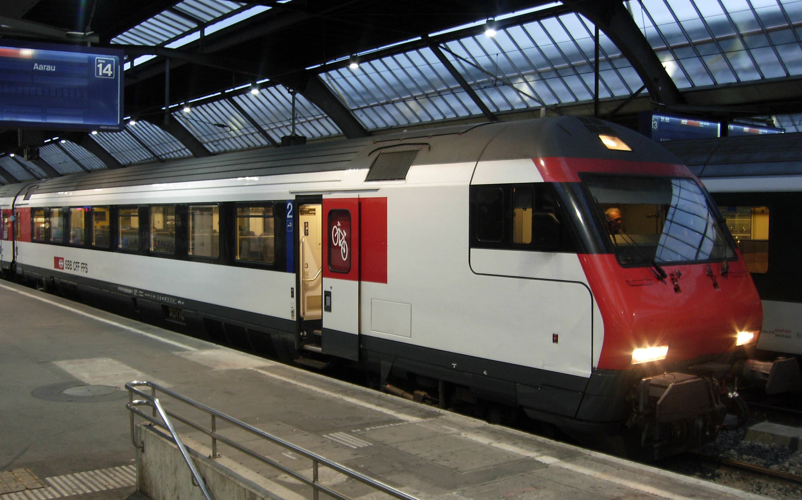 Control car Bt of the SBB (model IC) in Zürich HB.